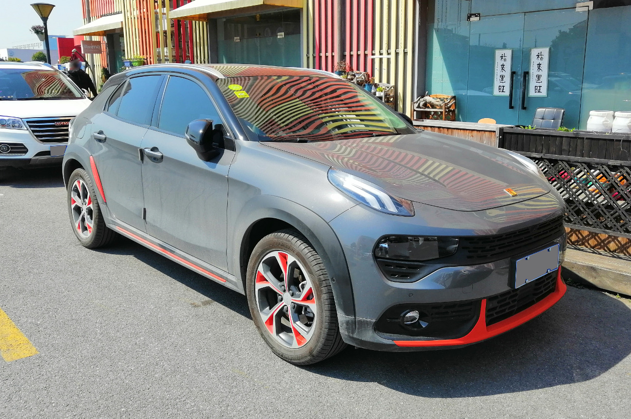 Lynk & Co 02 photographed in Shanghai, China.